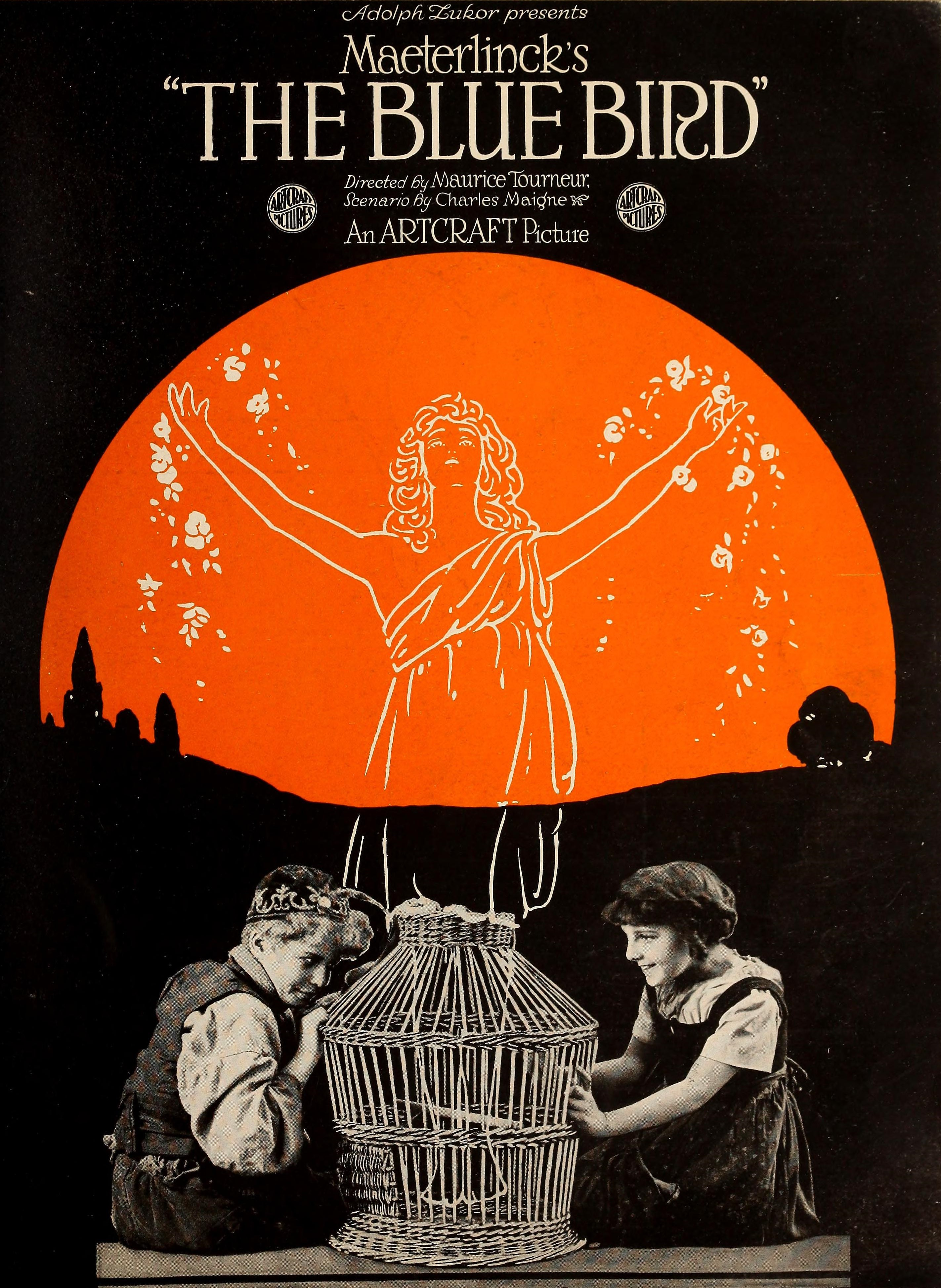 Advertisement for the American film The Blue Bird (1918).